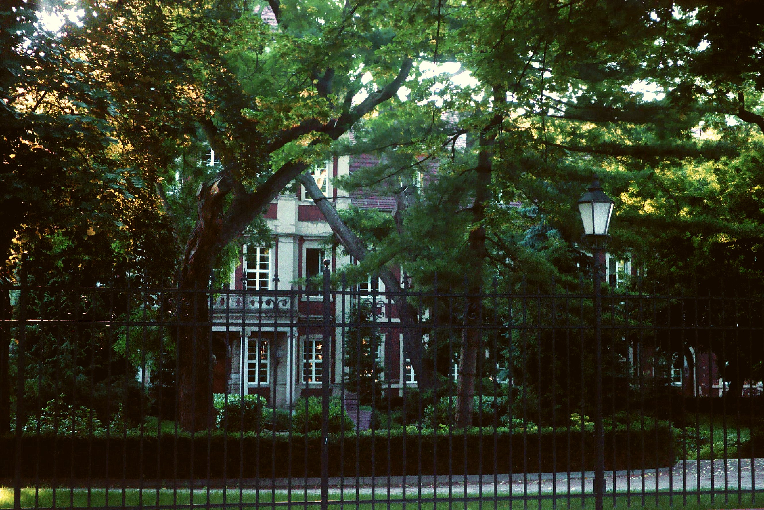 Barby, the palace